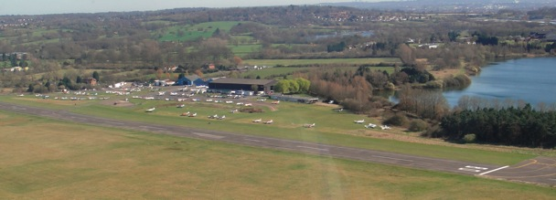 Aerial view of Elstree Aerodrome, Hertfordshire, England